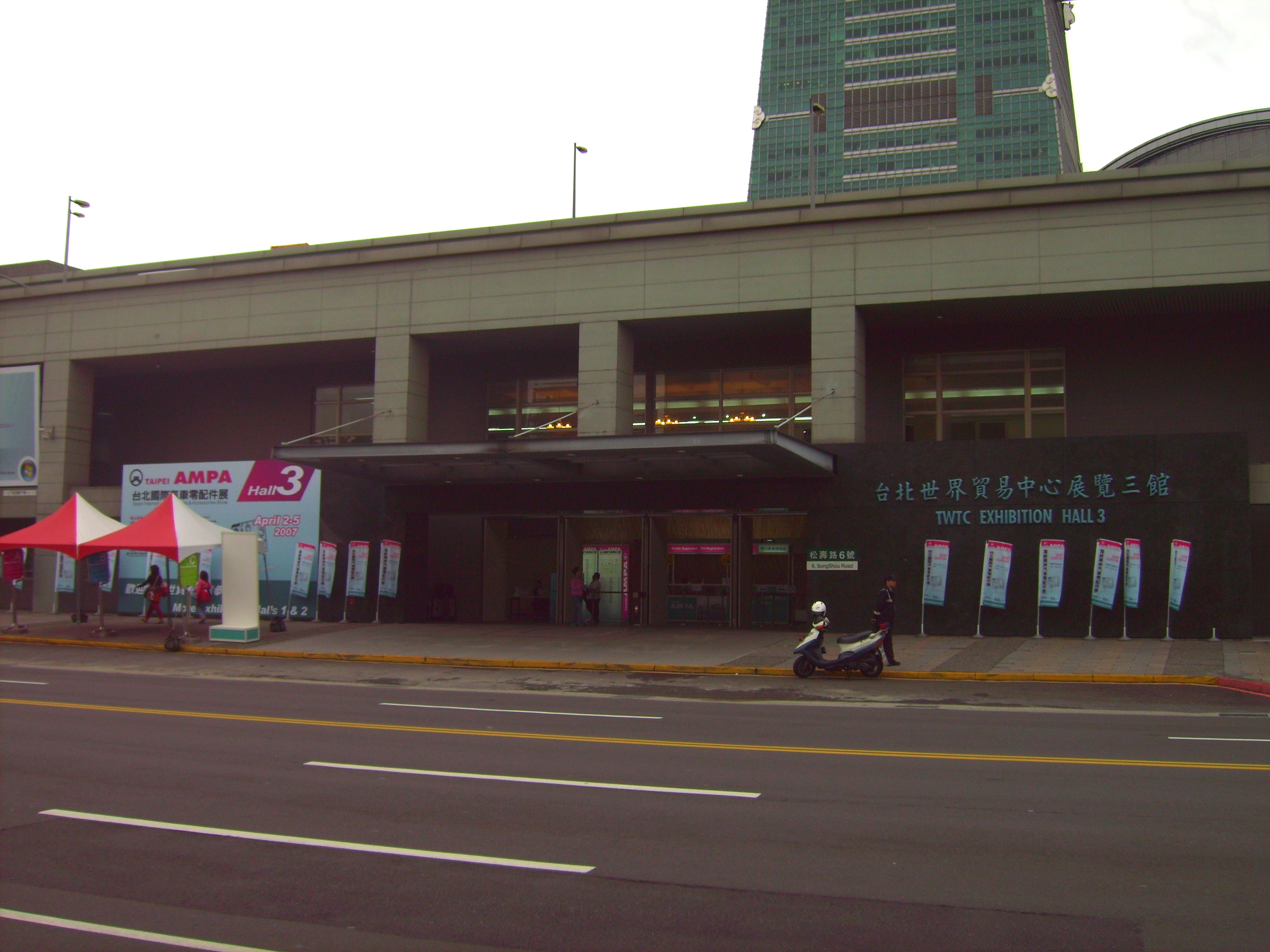 Taipei World Trade Center Exhibition Hall 3, started at 2003, is located at Songshou Road, Xinyi district, Taipei City, Taiwan, R.O.C. 中文（台灣）: 位在松壽路上的台北世界貿易中心展覽三館，是在2003年啟用的。 Bân-lâm-gú: Tī Siông-siū-lōo ê Tâi-pak Sè-kài Bōo-i̍k Tiong-sim ê tián-lám 3-kuán sī tī 2003-nî khé-iōng ê. 佇松壽路的臺北世界貿易中心展覽三館是佇2003年啟用的。